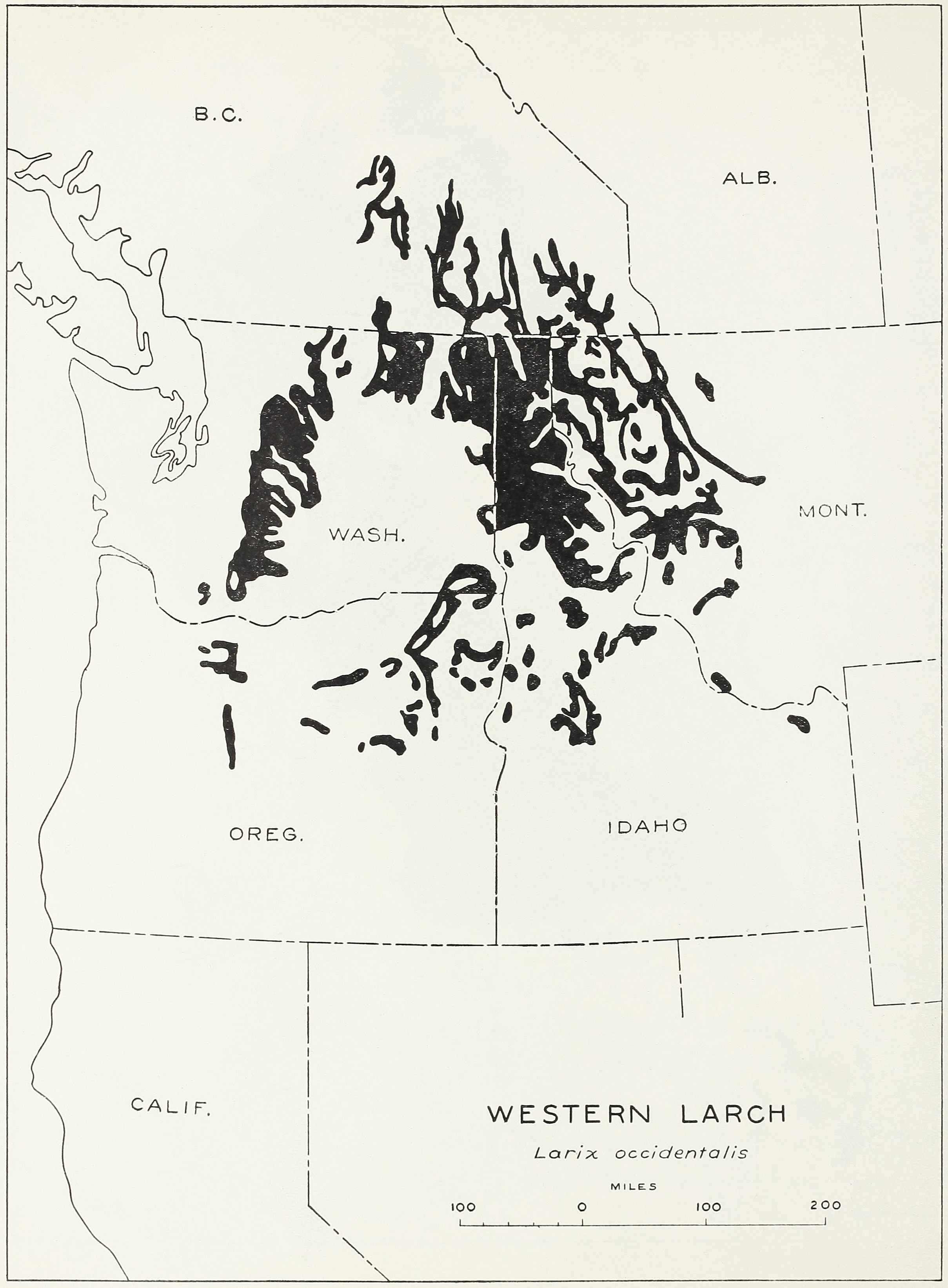 Title: The distribution of important forest trees of the United States Year: 1938 (1930s) Authors: Munns, E. N. (Edward Norfolk), 1889-1972 Subjects: Forests and forestry; Trees Publisher: Washington, D. C. : U. S. Dept. of Agriculture Text Appearing Before Image: 32 B.C. ALB. Text Appearing After Image: MONT. i V, ^ / DAHO 100 i WESTERN LARCH Larix. occidenta lis MILES O IOO 200 I X. LARIX OCCIDENTALIS NUTTALL Map 28 WESTERN LARCH